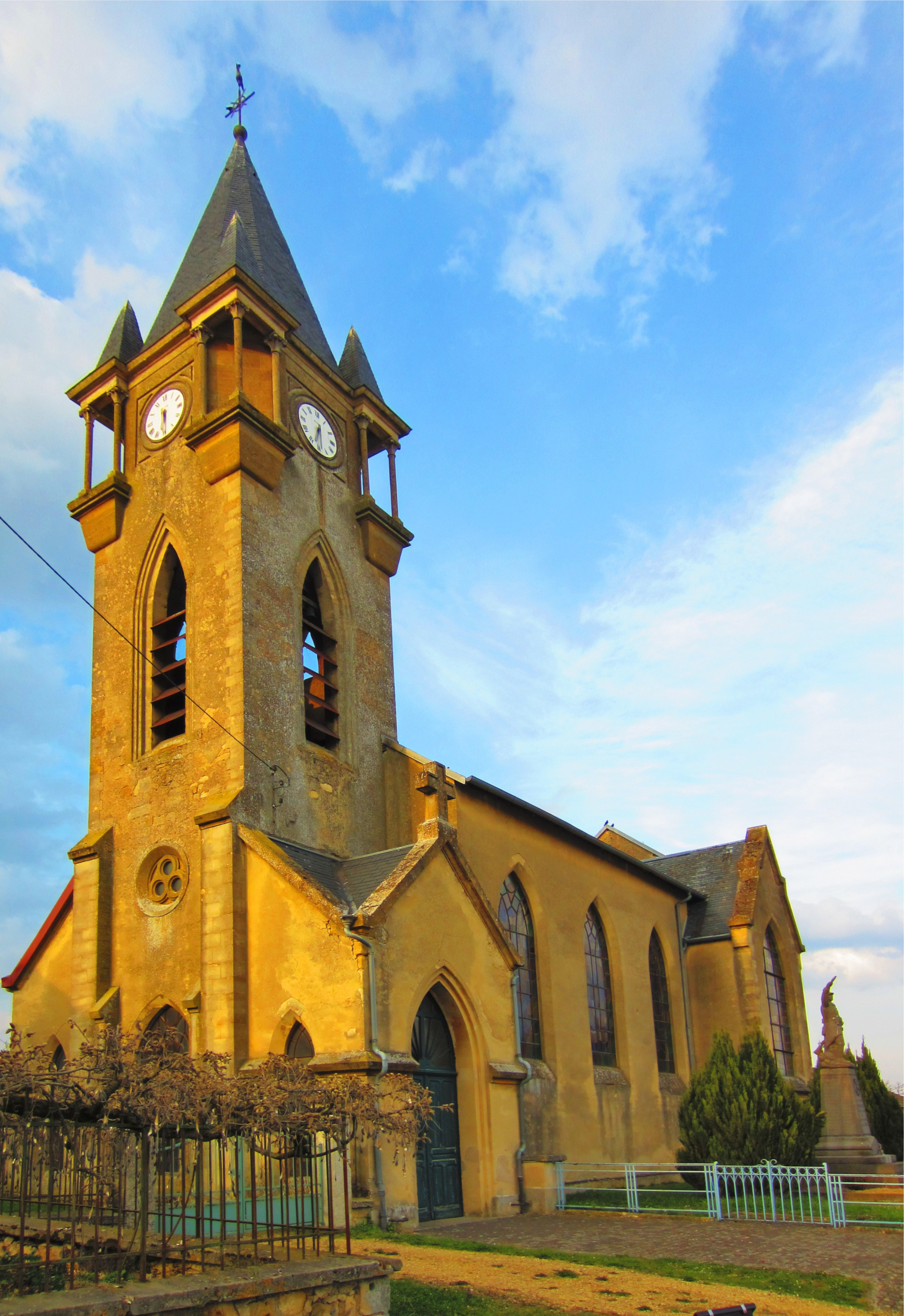 Romagne Cotes church